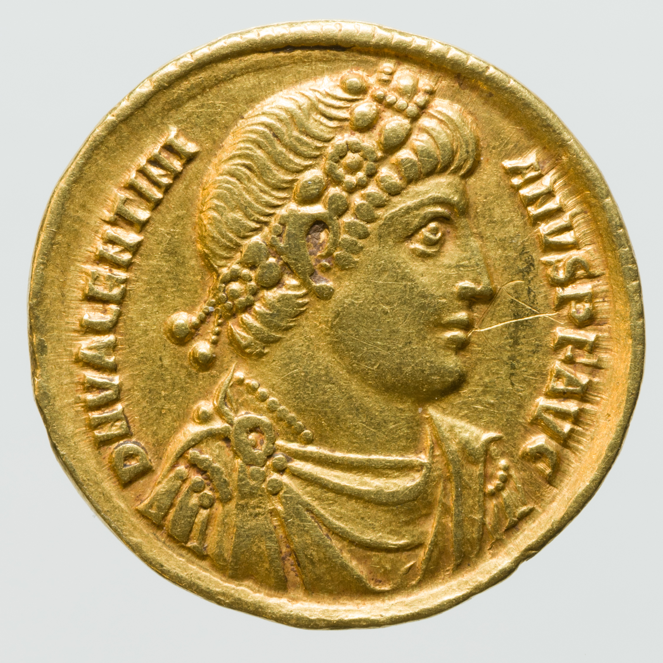 Gold Solidus of Valentinian II - obverse